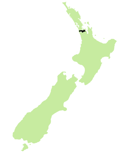 Map showing the Tāmaki Makaurau electorate based on boundaries used for the 2008 and 2011 general elections